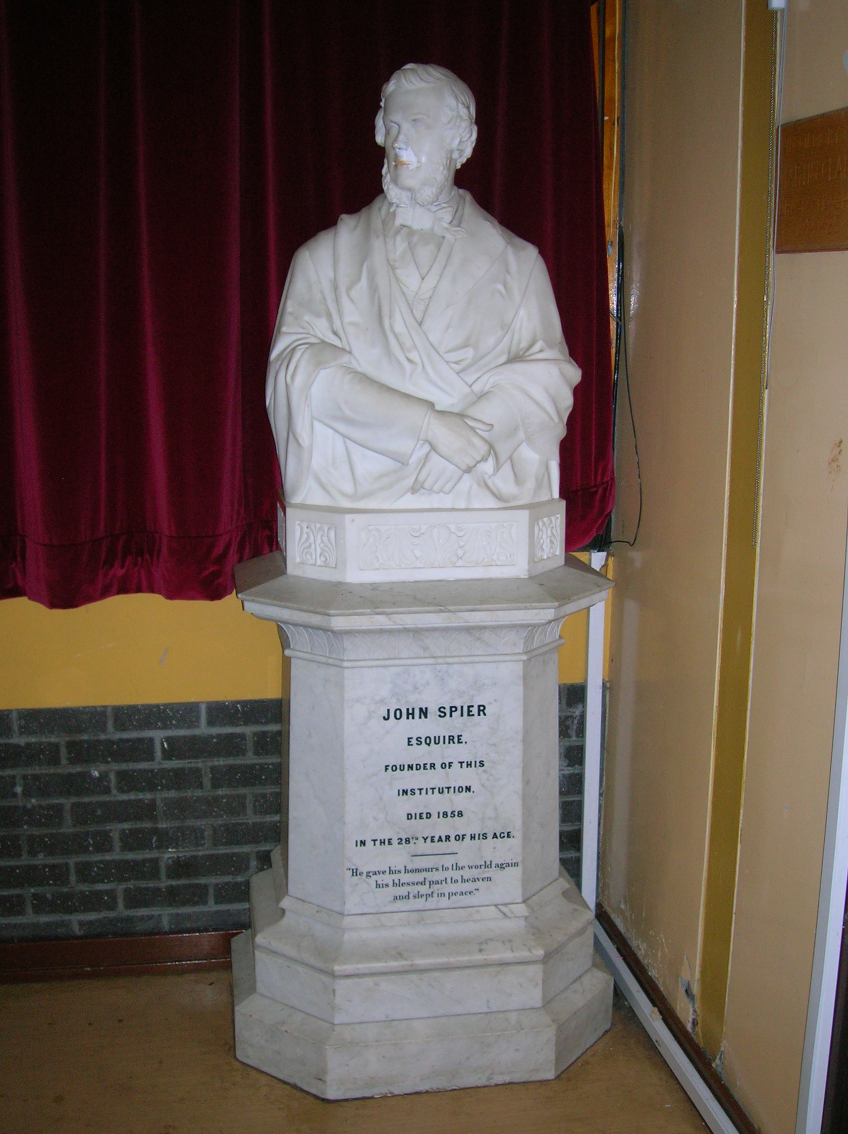 The statue of John Speir, Garnock Academy, North Ayrshire, Scotland.